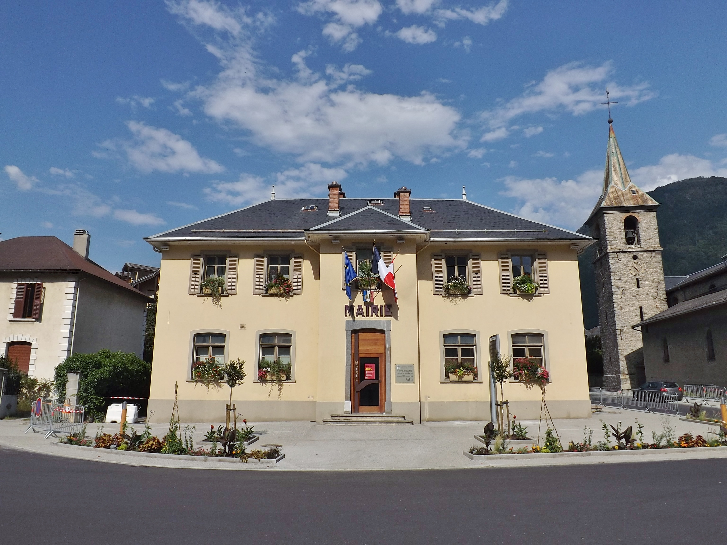 Sight of the French commune La Chambre town hall and church tower, in the Maurienne valley, in Savoie.